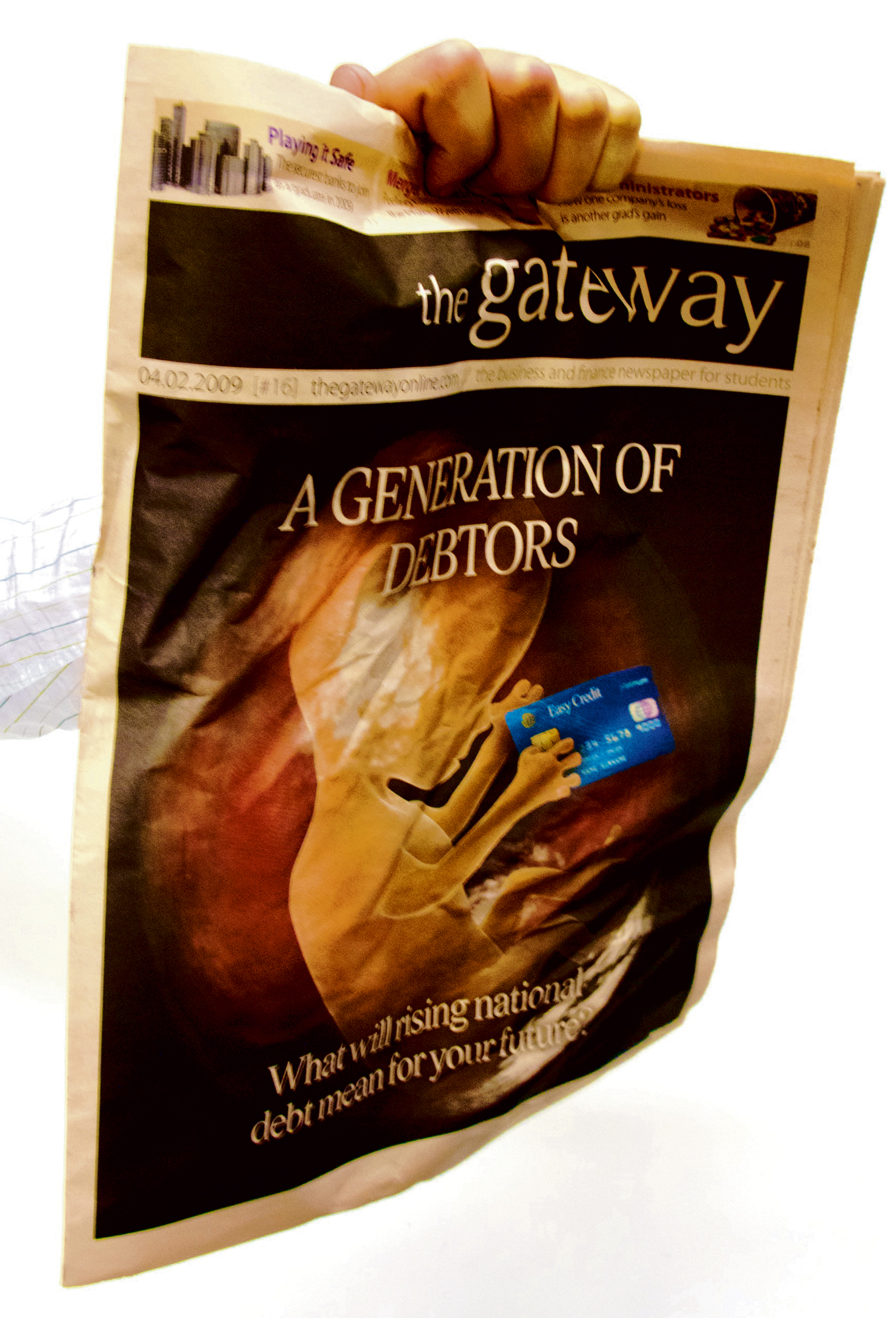 A typical issue of The Gateway newspaper, the business and finance newspaper distributed to fifteen UK universities.